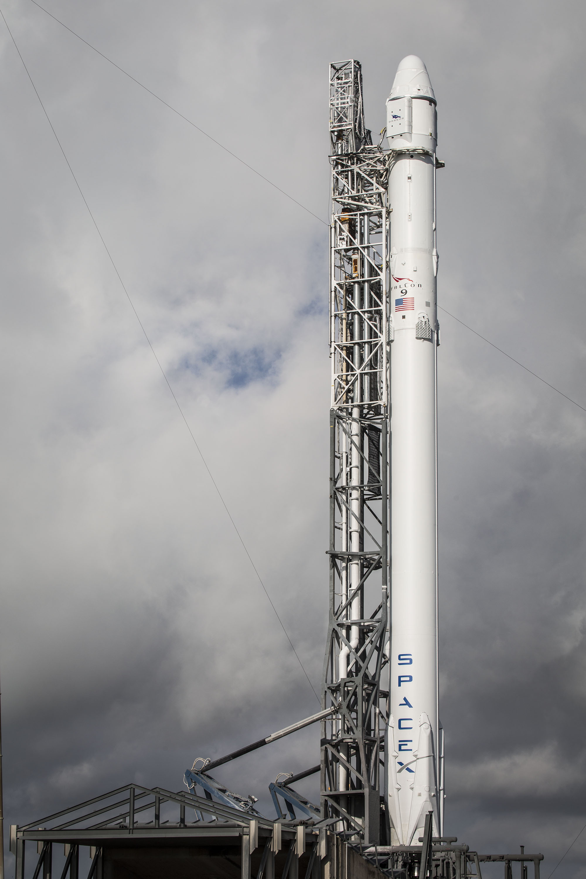 Falcon 9 and Dragon are vertical on the launch pad in advance of the CRS-6 launch.